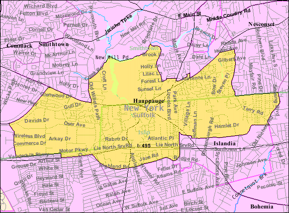 U.S. Census 2000 reference map for Hauppauge .